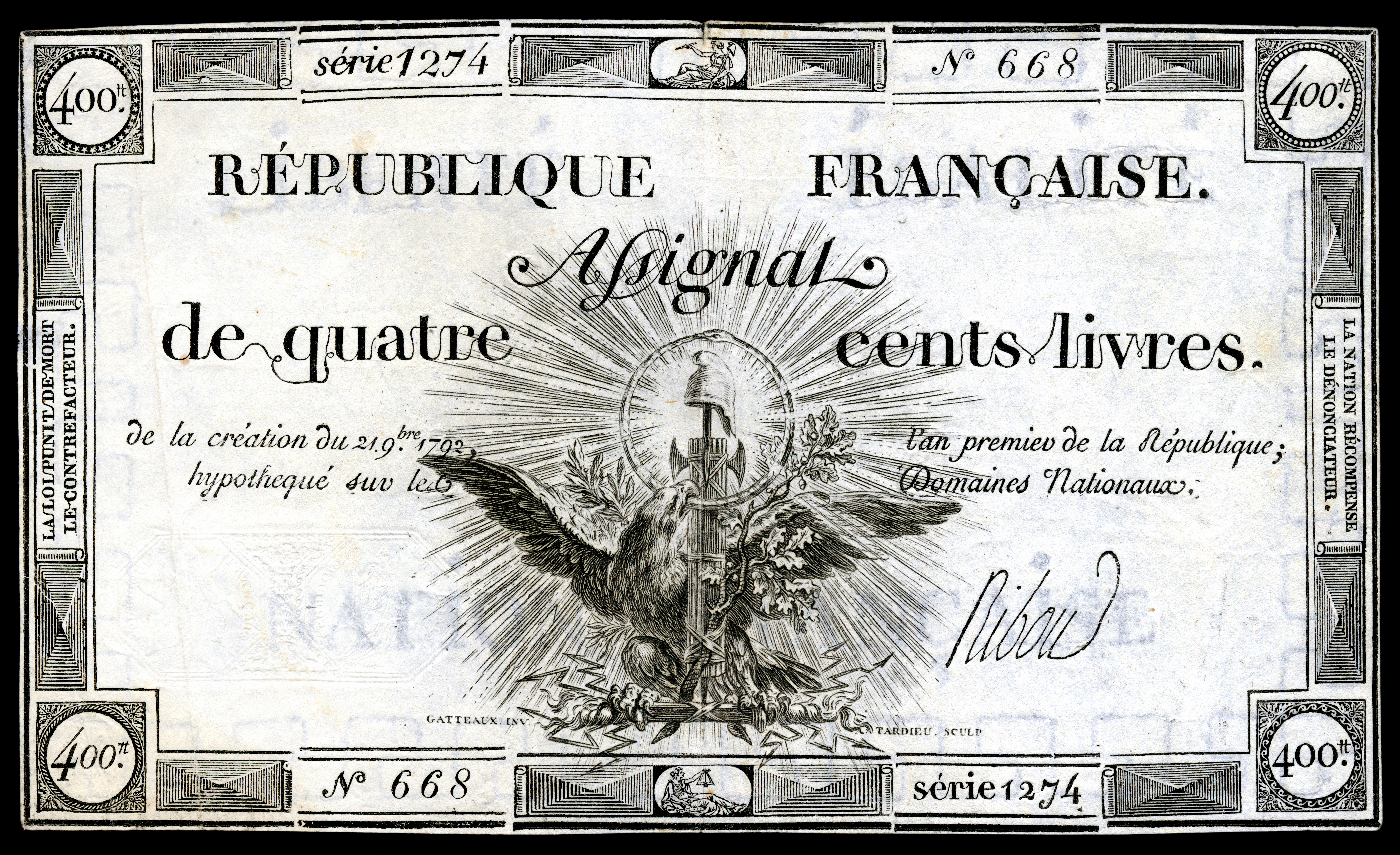 Early French banknote issue during the French Revolution (Assignat) for 400 livres, (1792)